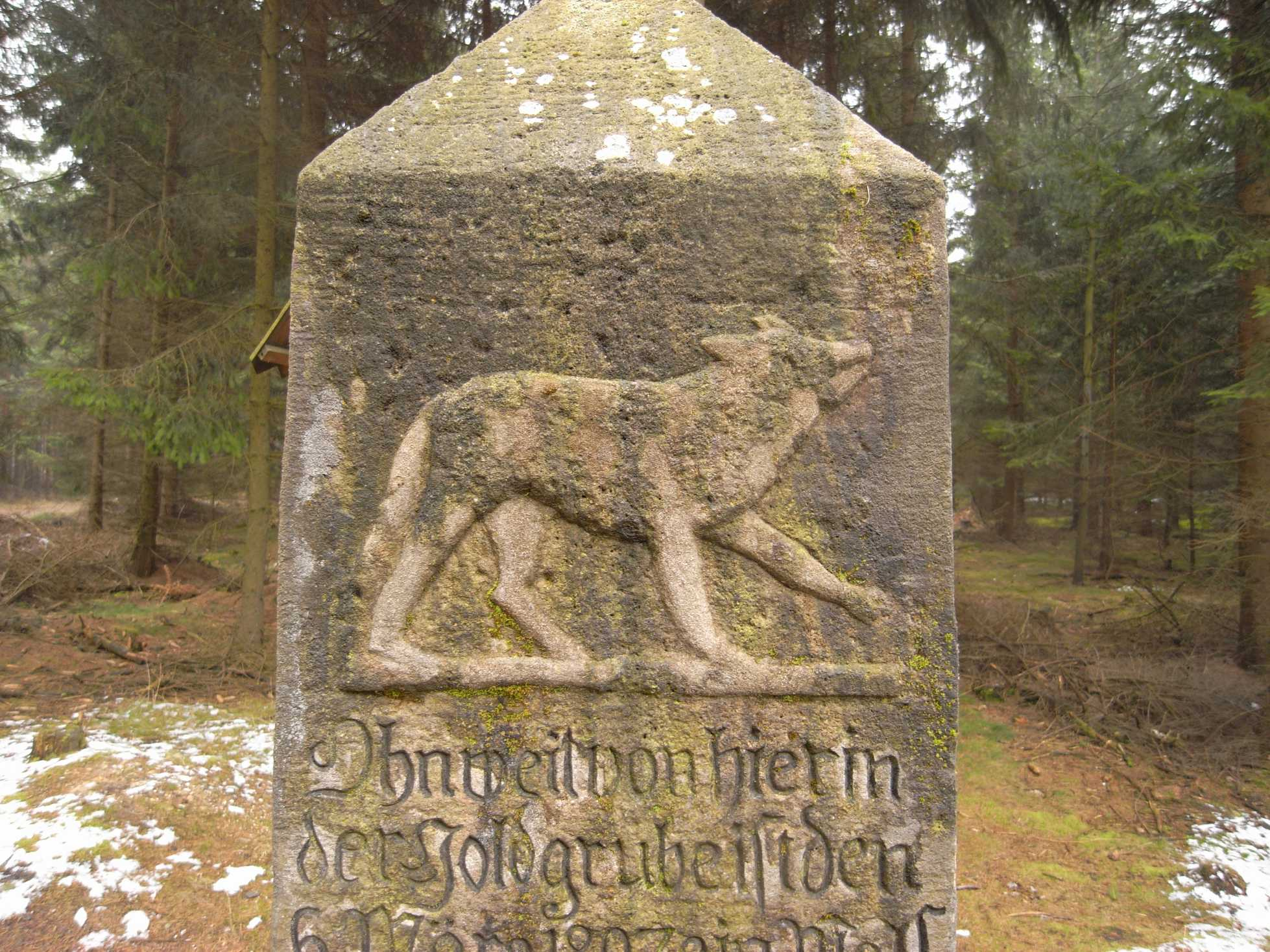 Heath of Dippoldiswalde (Dippoldiswalder Heide), head of the memorial Wolfssäule (sandstone)